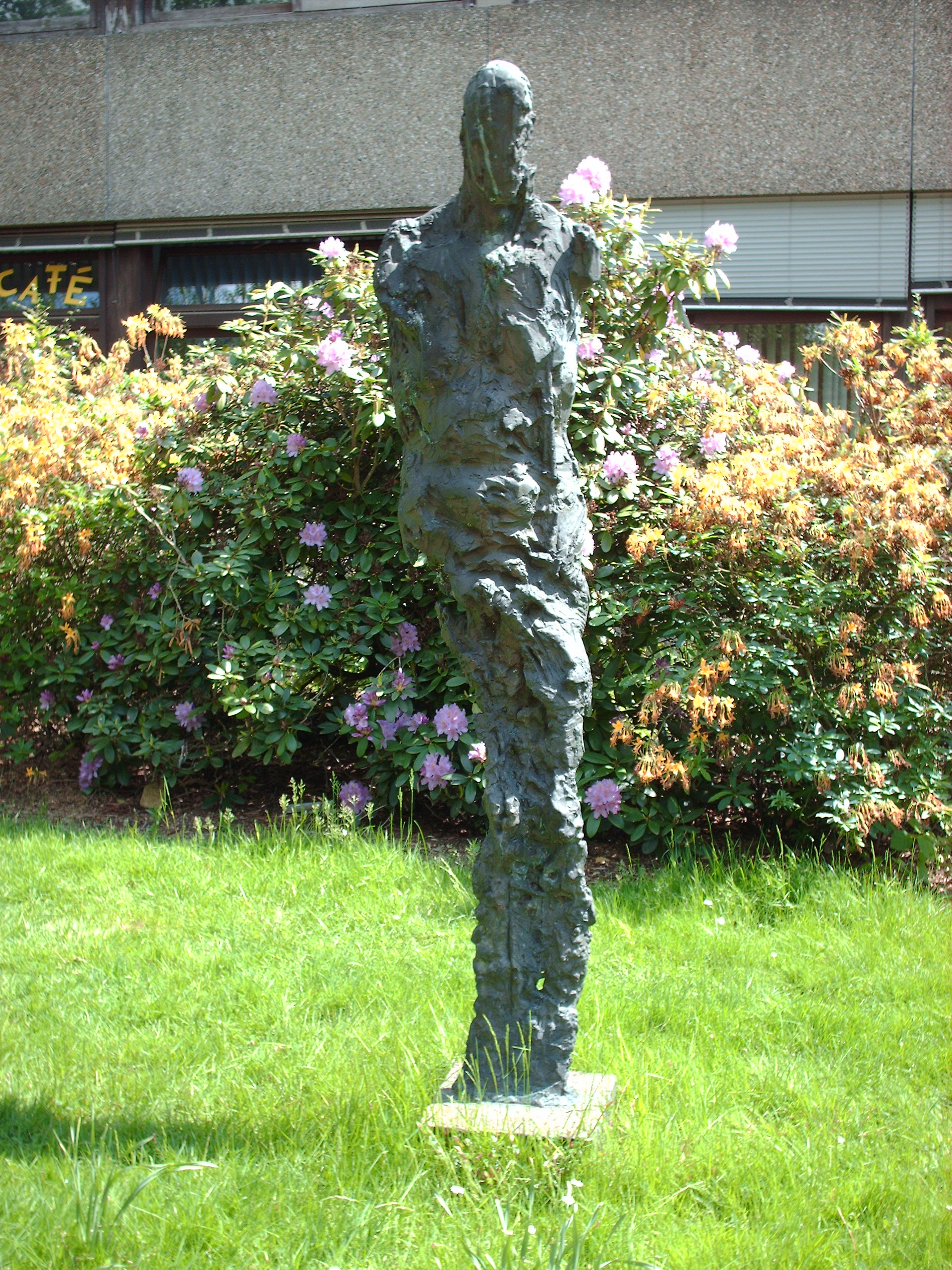 Religiöse Figur by Karl Bobek, part of Gießener Kunstweg, Gießen, Germany check usage